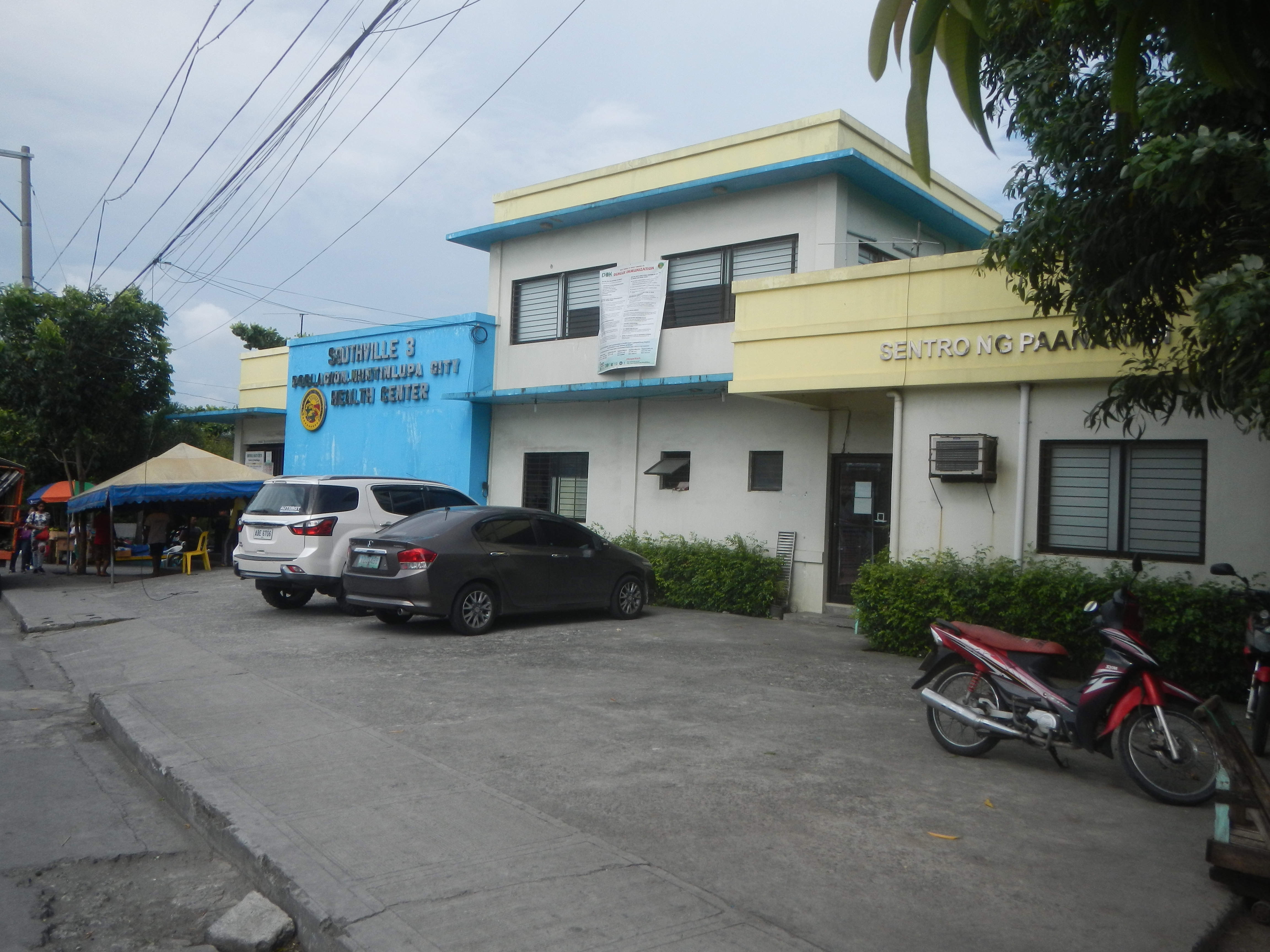 Insular Bilibid Prison Bridge (SLEx, Southville 3, Poblacion, City of Muntinlupa) Iustitia National Bilibid Prison Reservation (Bureau of Corrections, Muntinlupa City) Eriberto B. Misa, Sr. monument Jamboree Lake (National Bilibid Prison Reservation, Bureau of Corrections, Muntinlupa City) Memorial for Peace (National Bilibid Prison Reservation, Bureau of Corrections, Muntinlupa City-Gunma, Gunma, Japan) Grotto and Sunken Garden (National Bilibid Prison Reservation, Bureau of Corrections, Muntinlupa City) Itaas Elementary School (National Bilibid Prison Reservation, Bureau of Corrections, Muntinlupa City) South Luzon Expressway National Road (Alabang, Bayanan, Putatan and Poblacion), Muntinlupa City National Road (Tunasan, Muntinlupa City) Barangays Poblacion 14°22'48"N 121°1'53"E City of Muntinlupa Poblacion, Muntinlupa New Bilibid Prison Bureau of Corrections (Philippines) Putatan, Muntinlupa Tunasan Philippine highway network (Note: Judge Florentino Floro, the owner, to repeat, Donor Florentino Floro of all these photos hereby donate gratuitously, freely and unconditionally Judge Floro all these photos to and for Wikimedia Commons, exclusively, for public use of the public domain, and again without any condition whatsoever).